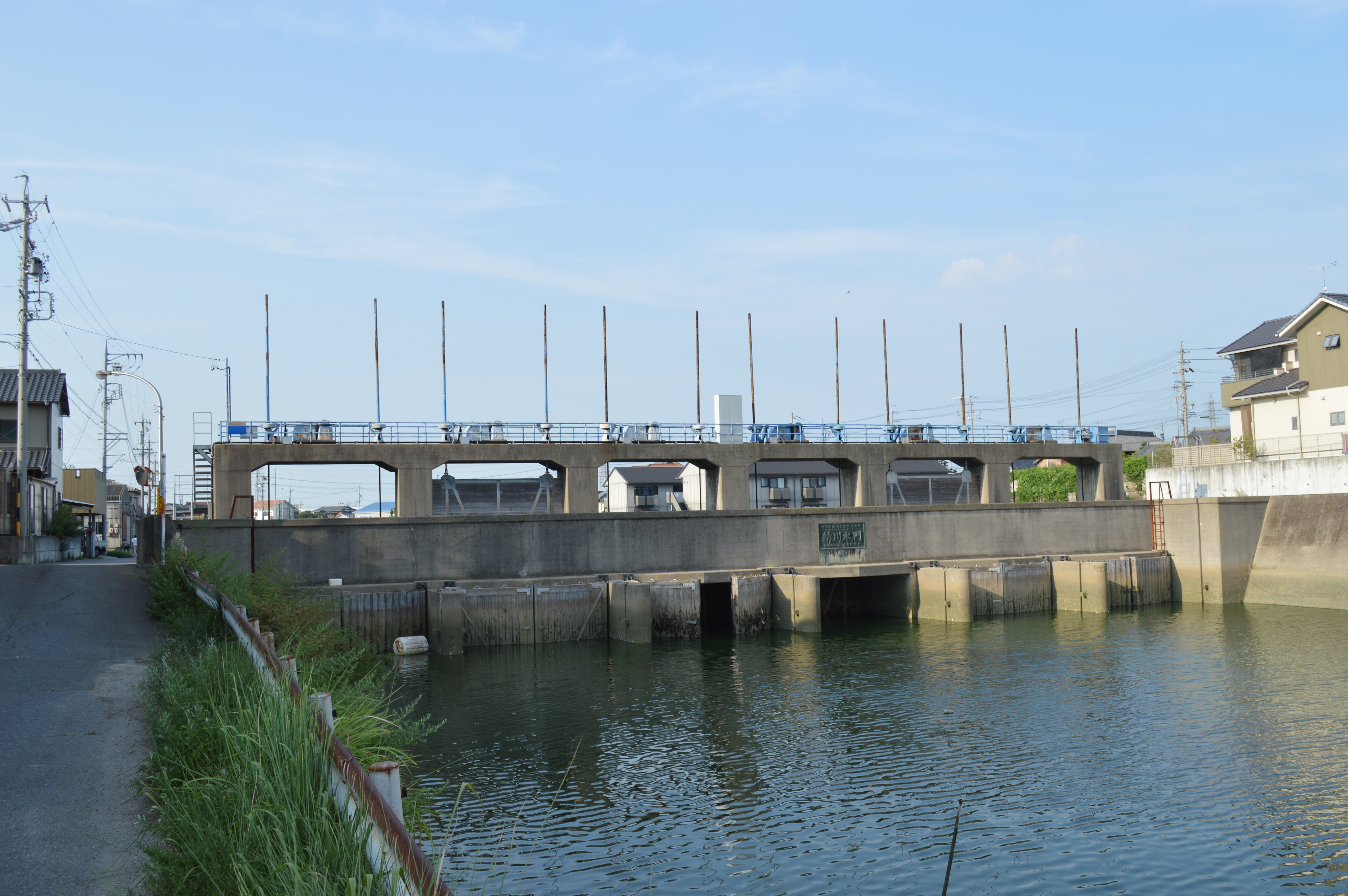 The Shinkawa Floodgate on the Shin River in Hekinan City, Aichi Prefecture, Japan